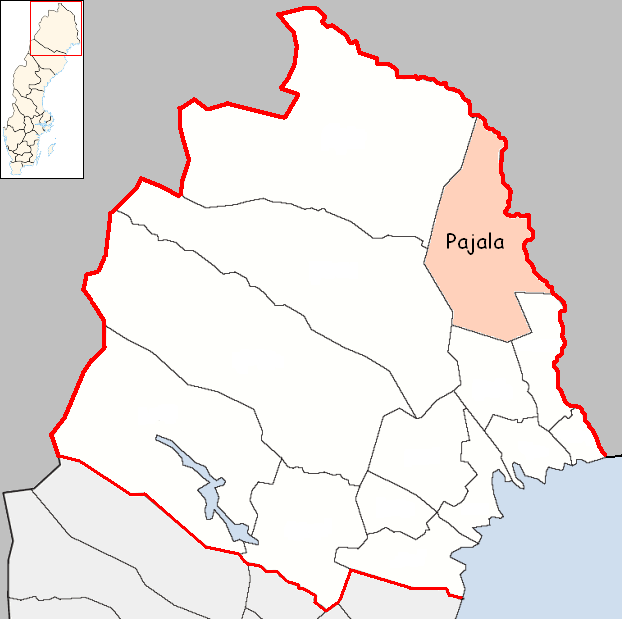 Pajala Municipality in Norrbotten County